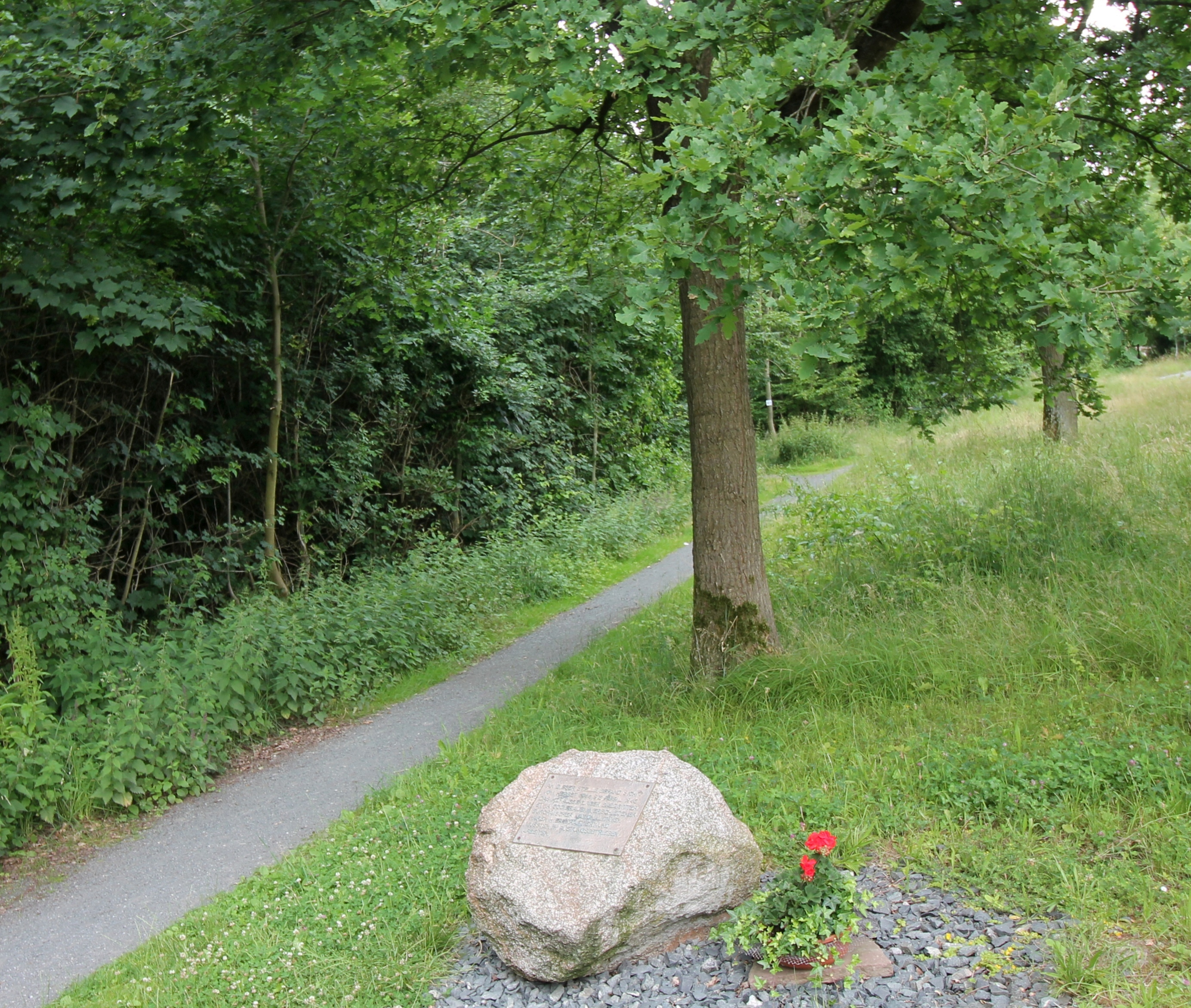 Nazi concentration camp Salzgitter-Bad memorial. Friedrich-Ebert-Strasse in Salzgitter-Bad, Salzgitter, Lower Saxony, Germany.